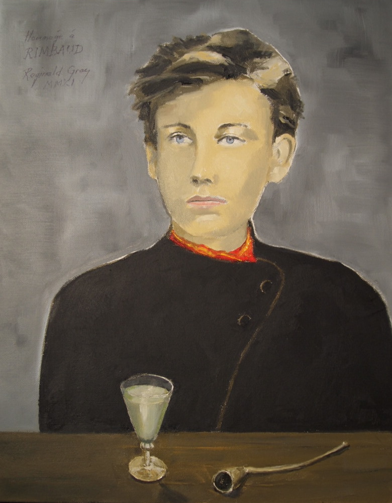 Portrait. Egg Tempera on Canvas. 41x33cm